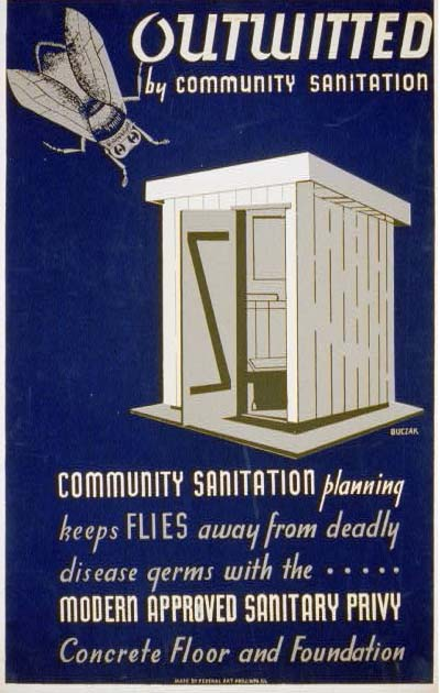 WPA Outhouse